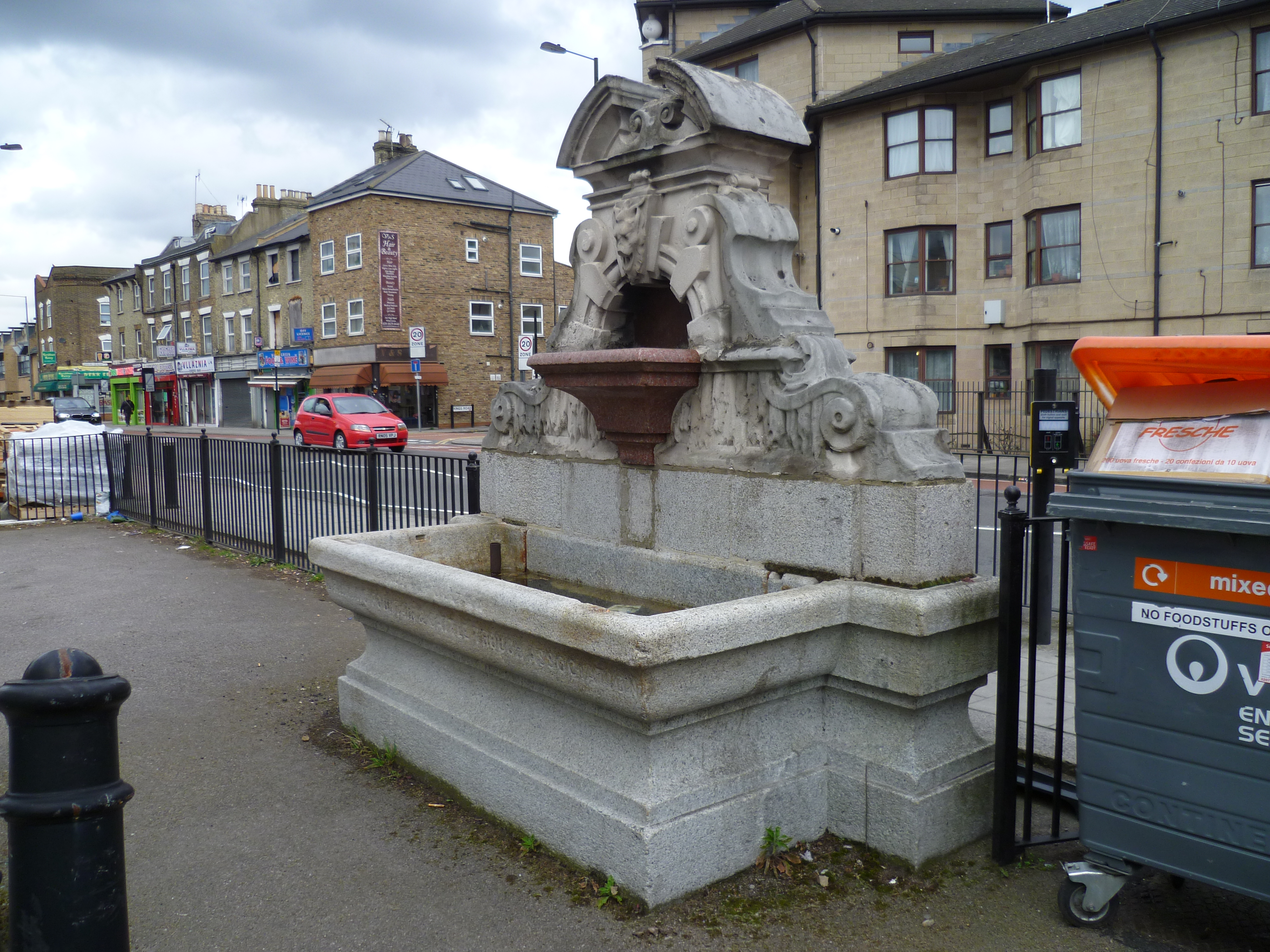 London